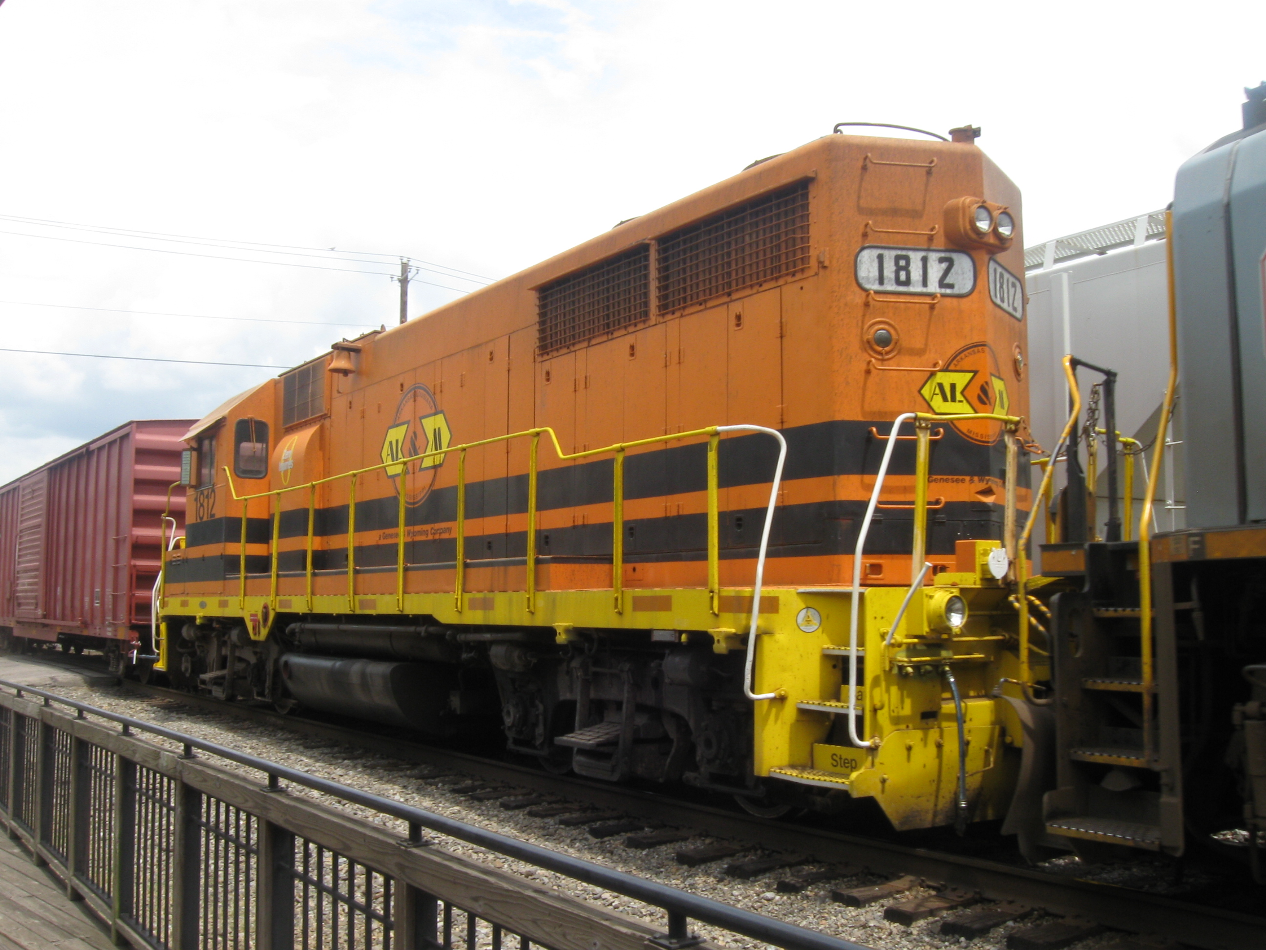 Arkansas, Louisiana & Mississippi Railroad (reporting mark ALM) locomotive 1812 westbound through Norfolk Southern Norris Yard in Irondale, Alabama